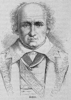 Louis Gohier, French politician (February 27, 1746 – May 29, 1830)